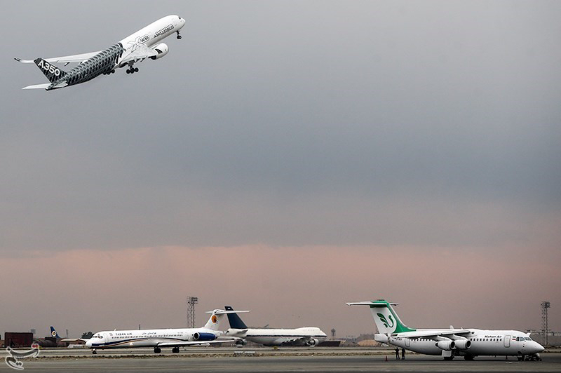 Airbus A350 demonstration at Tehran Mehrabad Airport